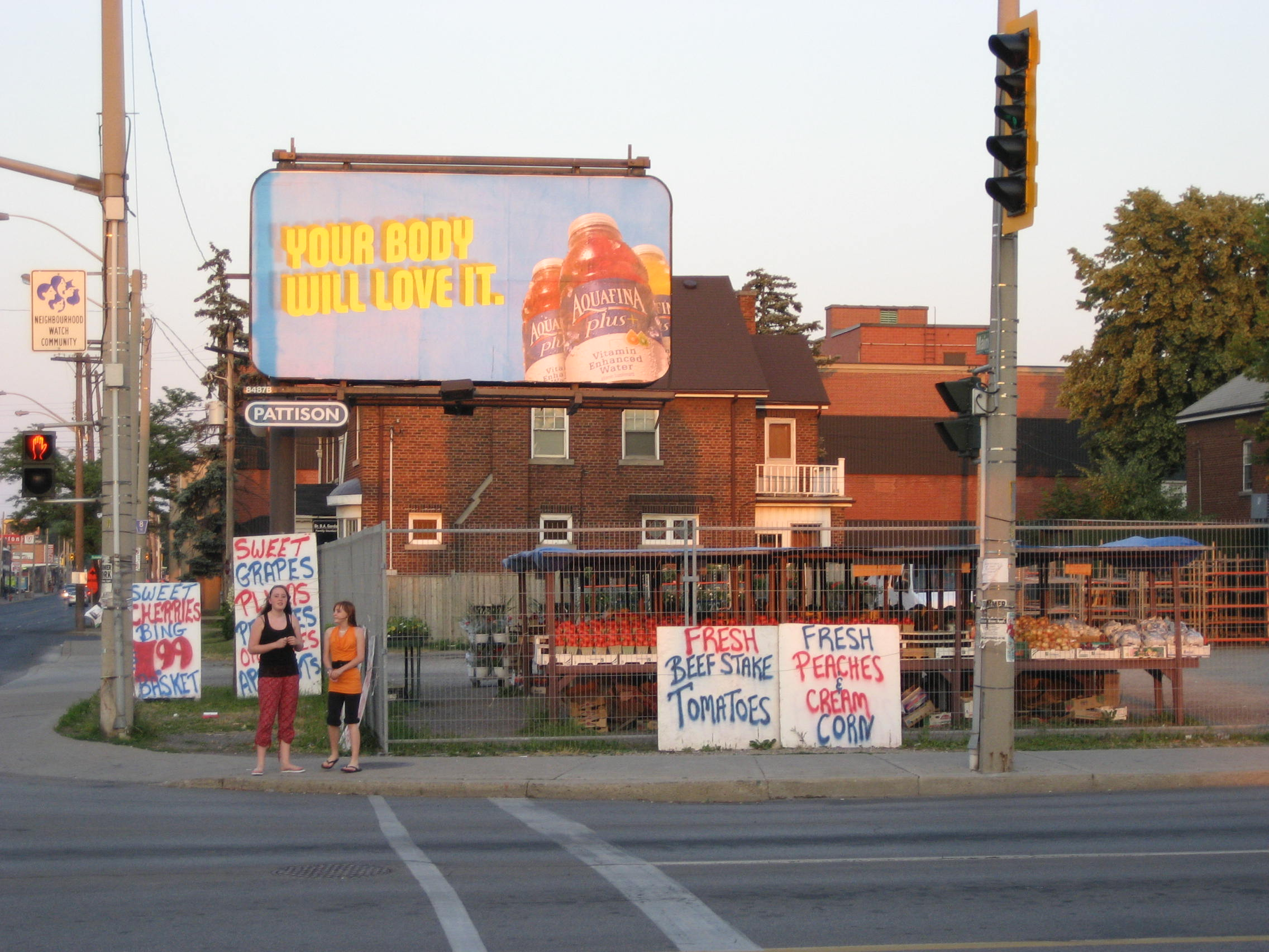 Corner of Ottawa Street & Main Street East, shopping district, Hamilton, Ontario.